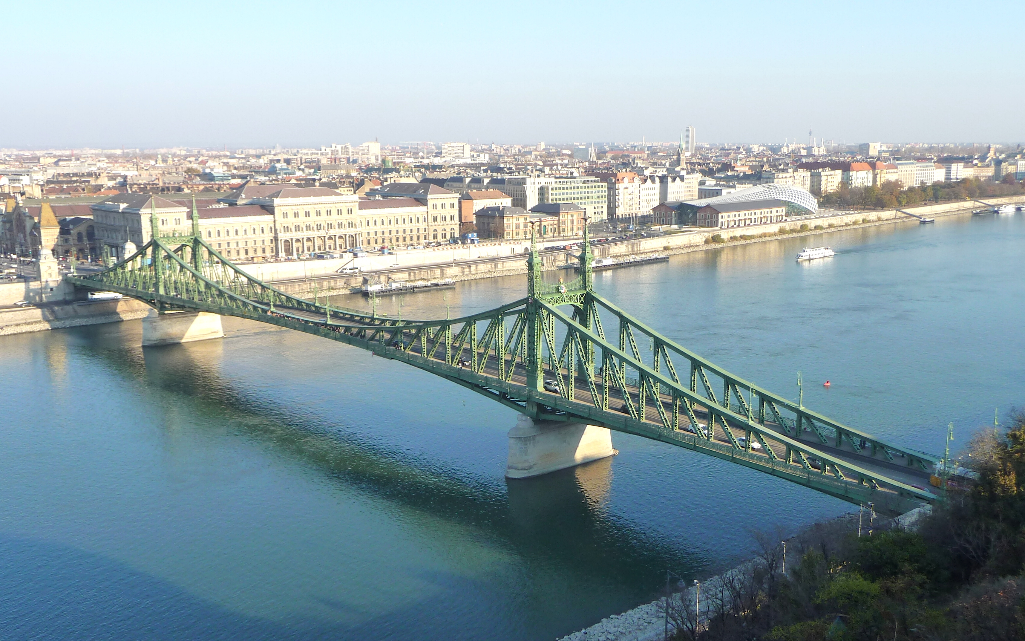 The Liberty Bridge (Budapest, Hungary).